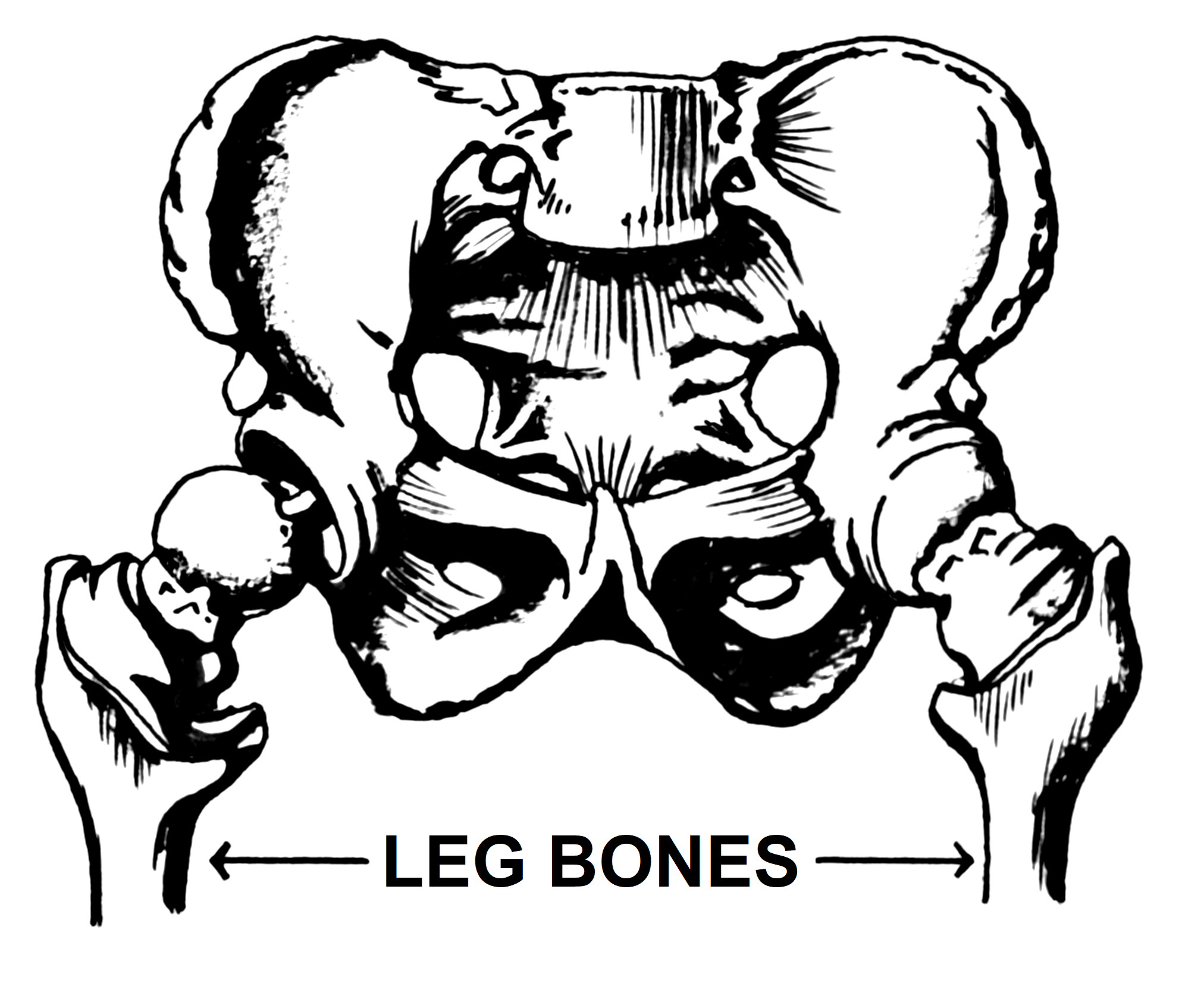 A pelvic bone with leg bones indicated.